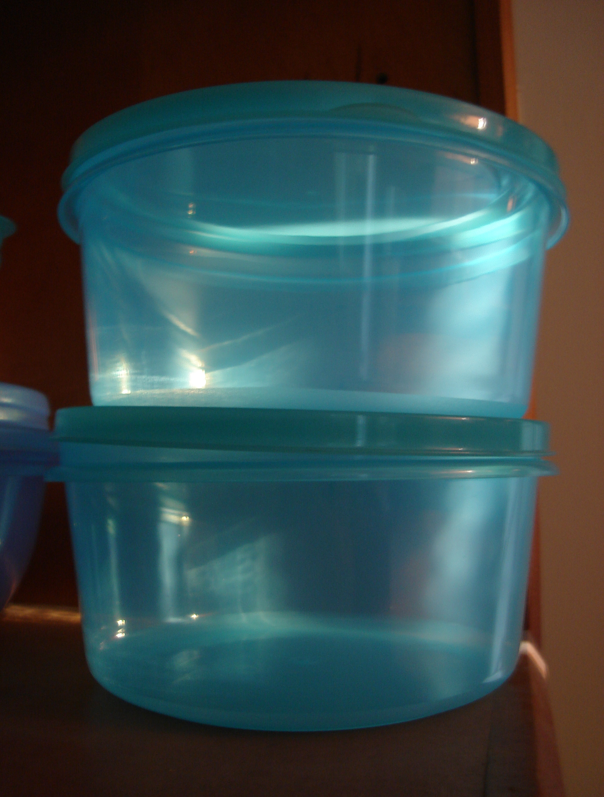 Translucent blue Tupperware boxes